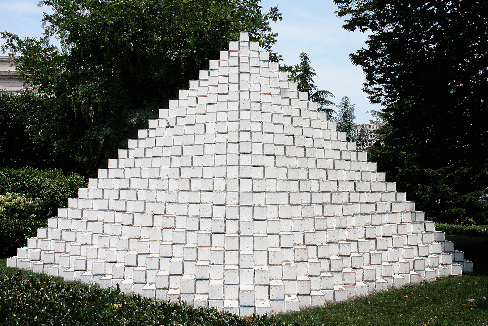 Sol LeWitt's "Four Sided Pyramid" at National Gallery of Art Sculpture Garden From the early 1960s to the present, Sol LeWitt has been at the forefront of minimal and conceptual art. LeWitt's "structures" (a term he prefers to sculpture) are generally composed with modular, quasi-architectural forms. For many of his works, LeWitt creates a plan and a set of instructions to be executed by others. Four-Sided Pyramid was constructed on this site by a team of engineers and stone masons in collaboration with the artist. The terraced pyramid, first employed by LeWitt in the 1960s, relates to the setback design that had long been characteristic of New York City skyscrapers. Its geometric structure also alludes to the ziggurats of ancient Mesopotamia. Sol LeWitt Dies at age 78 Sol LeWitt (1928–2007), one of the most important artistic voices of the last four decades, conceived of "the artist as a thinker and originator of ideas rather than as a craftsman." He was an originator of conceptual art, in which the work of art—typically an installation rather than an art object in the conventional sense—is either incarnated by language alone or produced according to the artist's written instructions. For LeWitt, the pursuit of art's intellectual, rather than emotive, foundation was also in keeping with the artist's own deep-seated personal modesty.